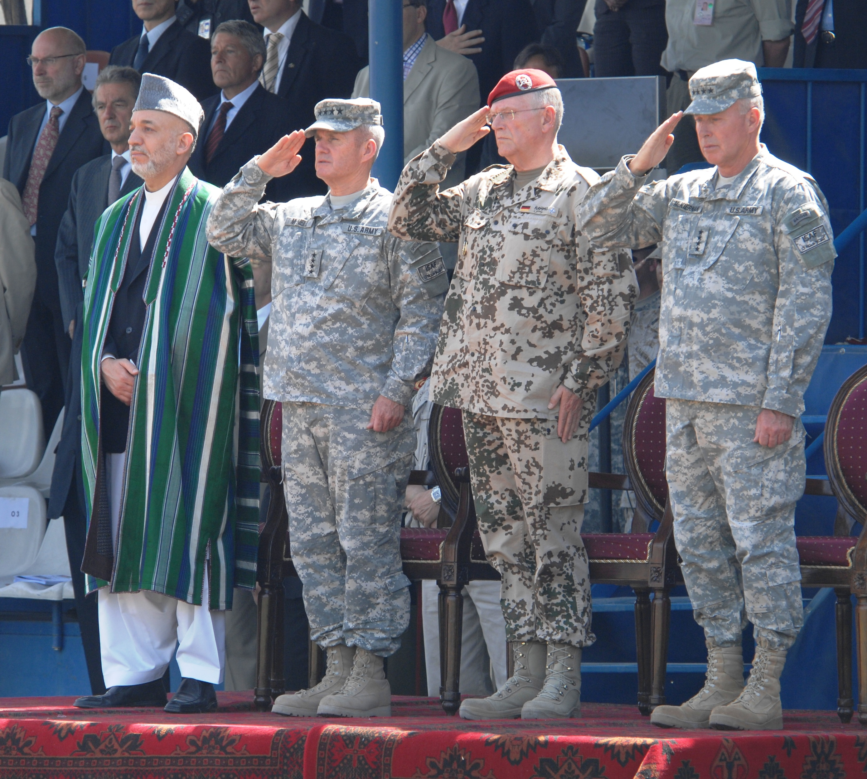 Afghan President Hamid Karzai stands alongside, left to right, U.S. Army Gen. Dan K. McNeill, outgoing NATO International Security Assistance Force Commander; German army Gen. Egon Ramms, commander of NATO’s Allied Joint Force Command Brunssum; and U.S. Army Gen. David D. McKiernan, incoming ISAF commander, as they pay respect to both countries' national anthems at the ISAF change-of-command ceremony, June 3. 2008. NATO photo by U.S. Air Force Senior Master Sgt. Andrew E. Lynch